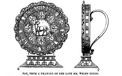 Design for a pax by Edward Welby Pugin